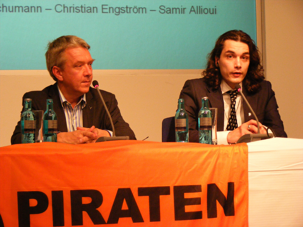 Christian Engstrom and Samir Allioui at a conference regarding Piratenpartei Deutschland